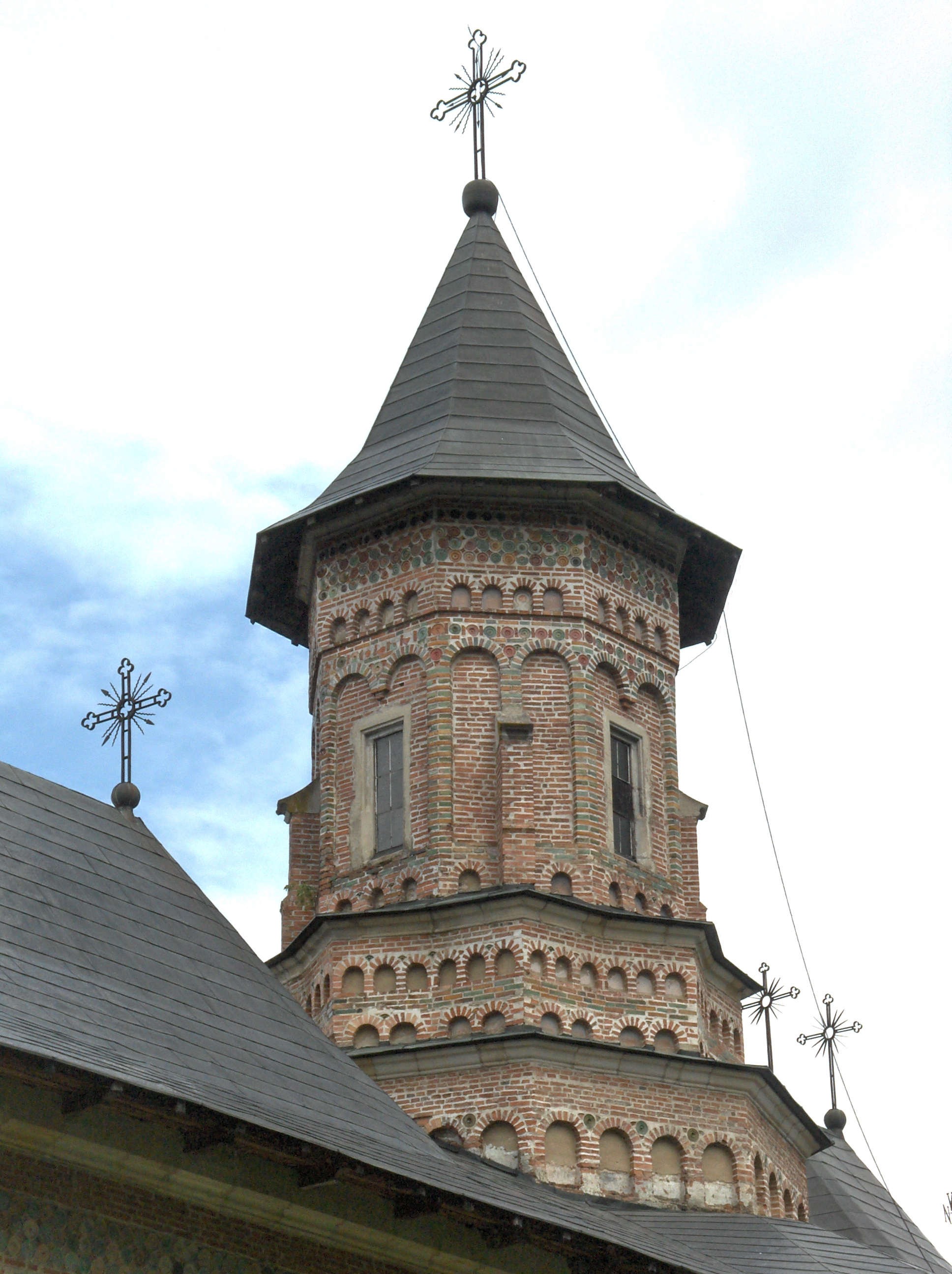 Detail of the church tower 01